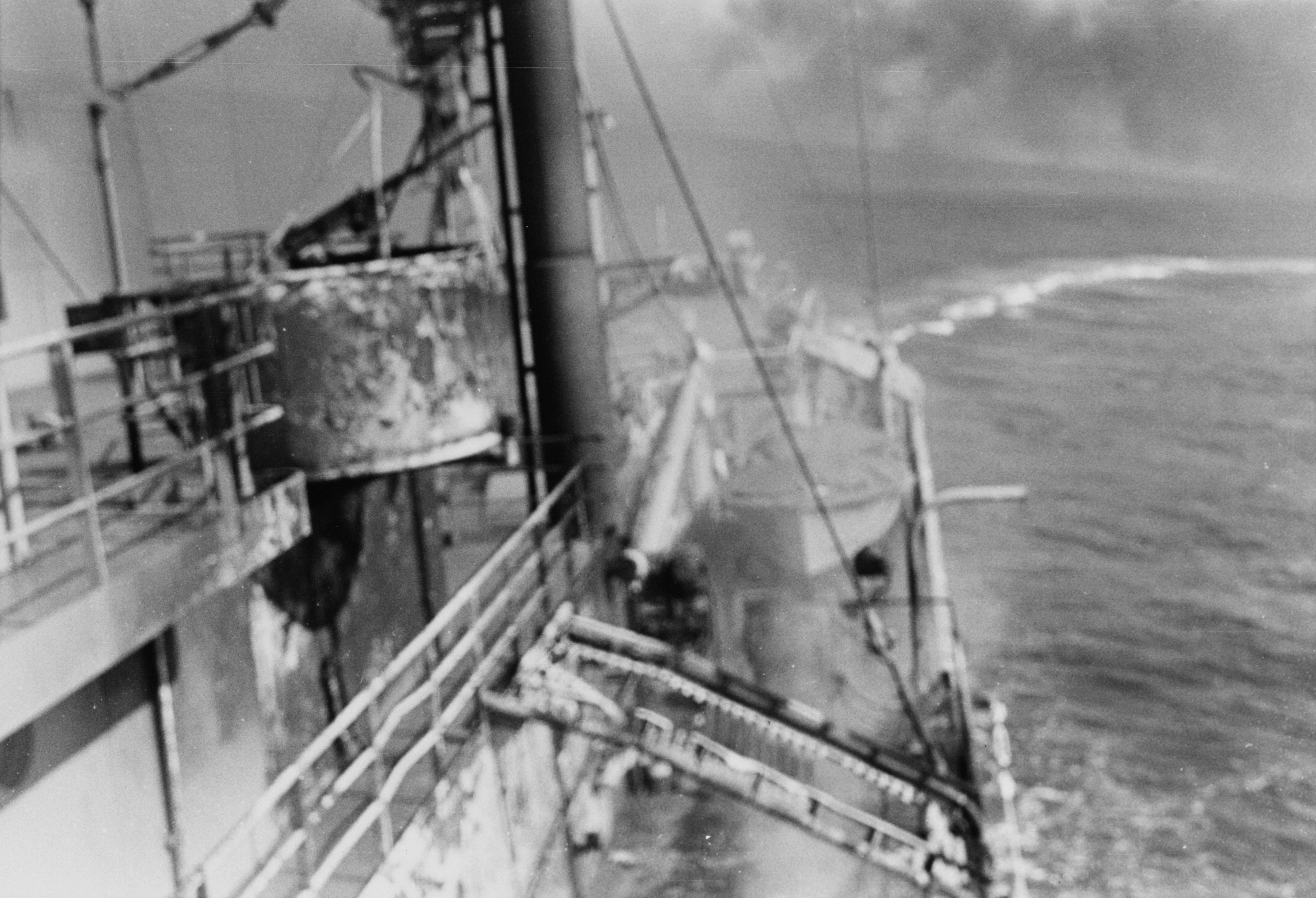 The U.S. Navy electronic reconnaissance gathering ship USS Liberty (AGTR-5) turns while under attack by Israeli motor torpedo boats, off the Sinai Peninsula, 8 June 1967. Note the fire-damaged structure at left, with what appears to be a 12.7 mm machine gun.